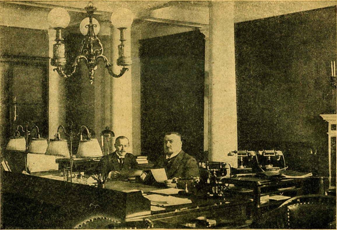 Alexey Nikolaevich Khvostov